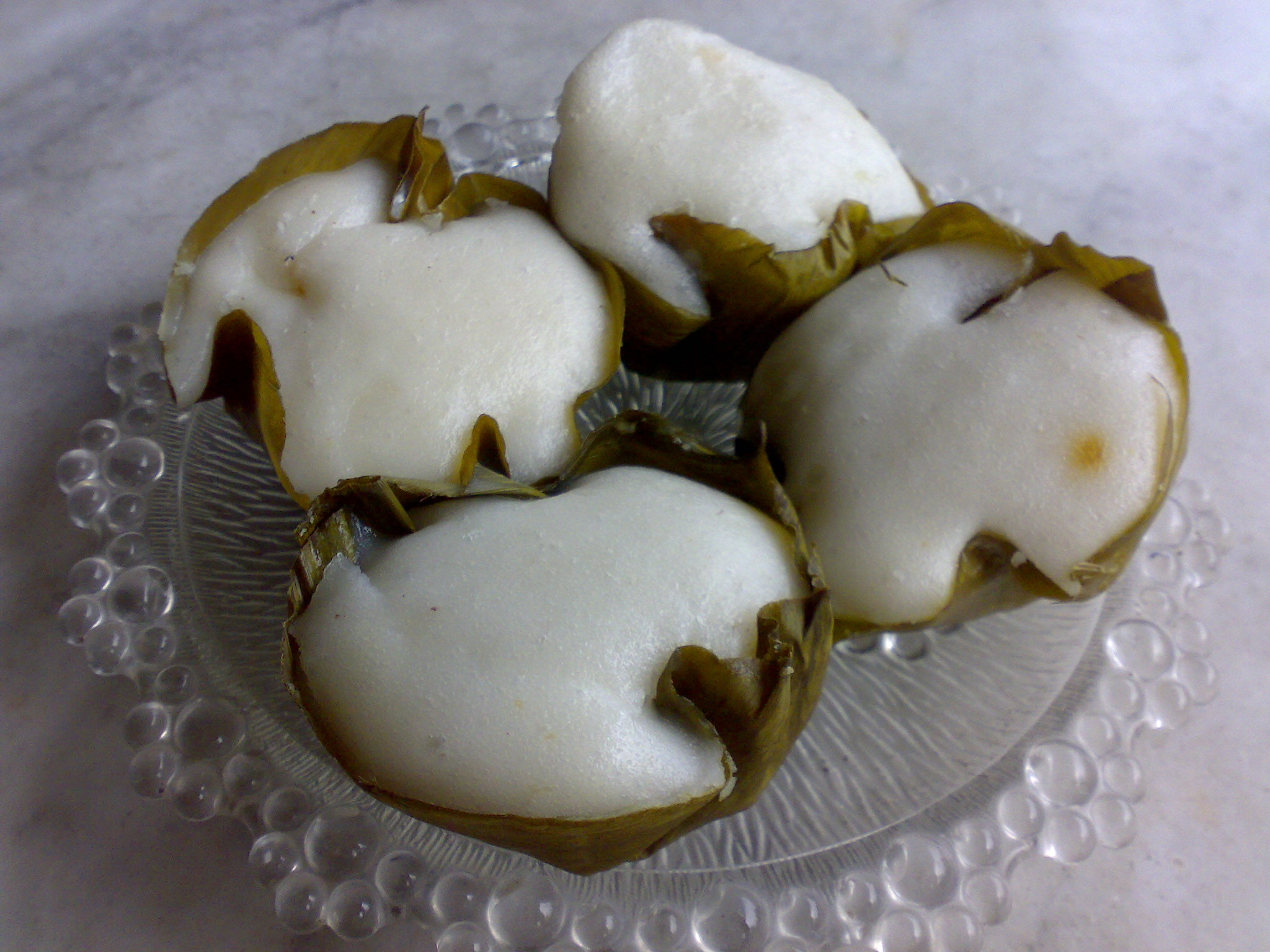 Puto, rice cakes from the Philippines.